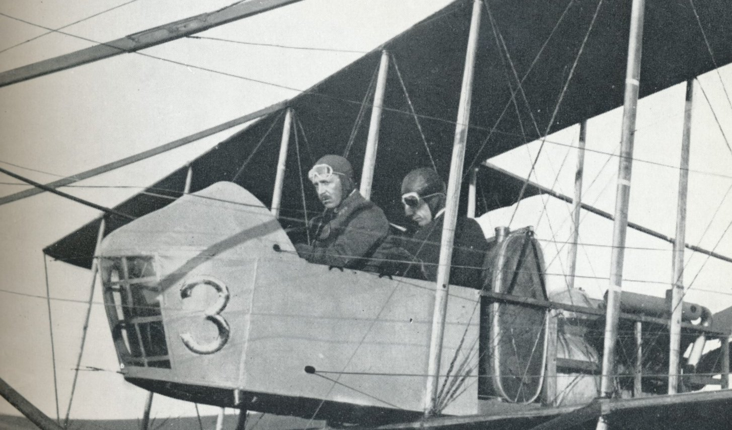 Einar Sem-Jacobsen, Roald Amundsen